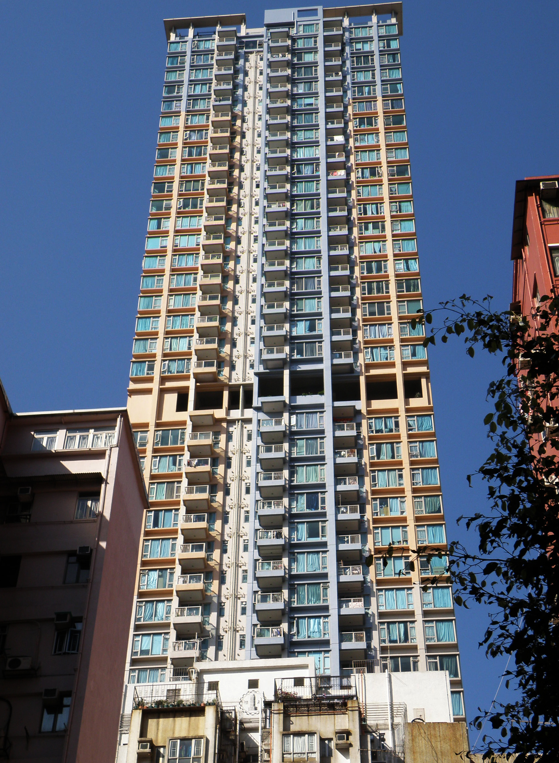 VISTA, Hong Kong.